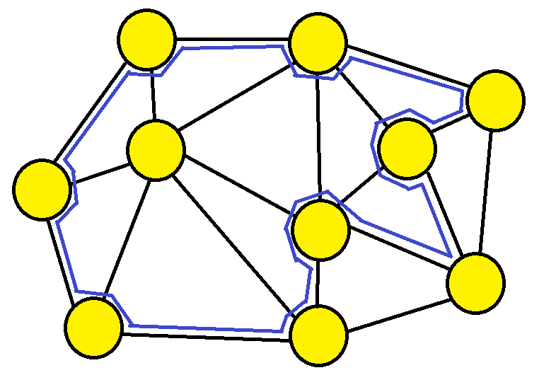 P-cycle